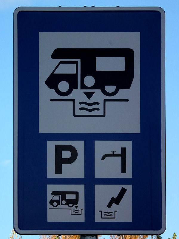 Sign for motorhome overnight parking (Stopover/Stellplatz/Aree di Sosta) in Spain